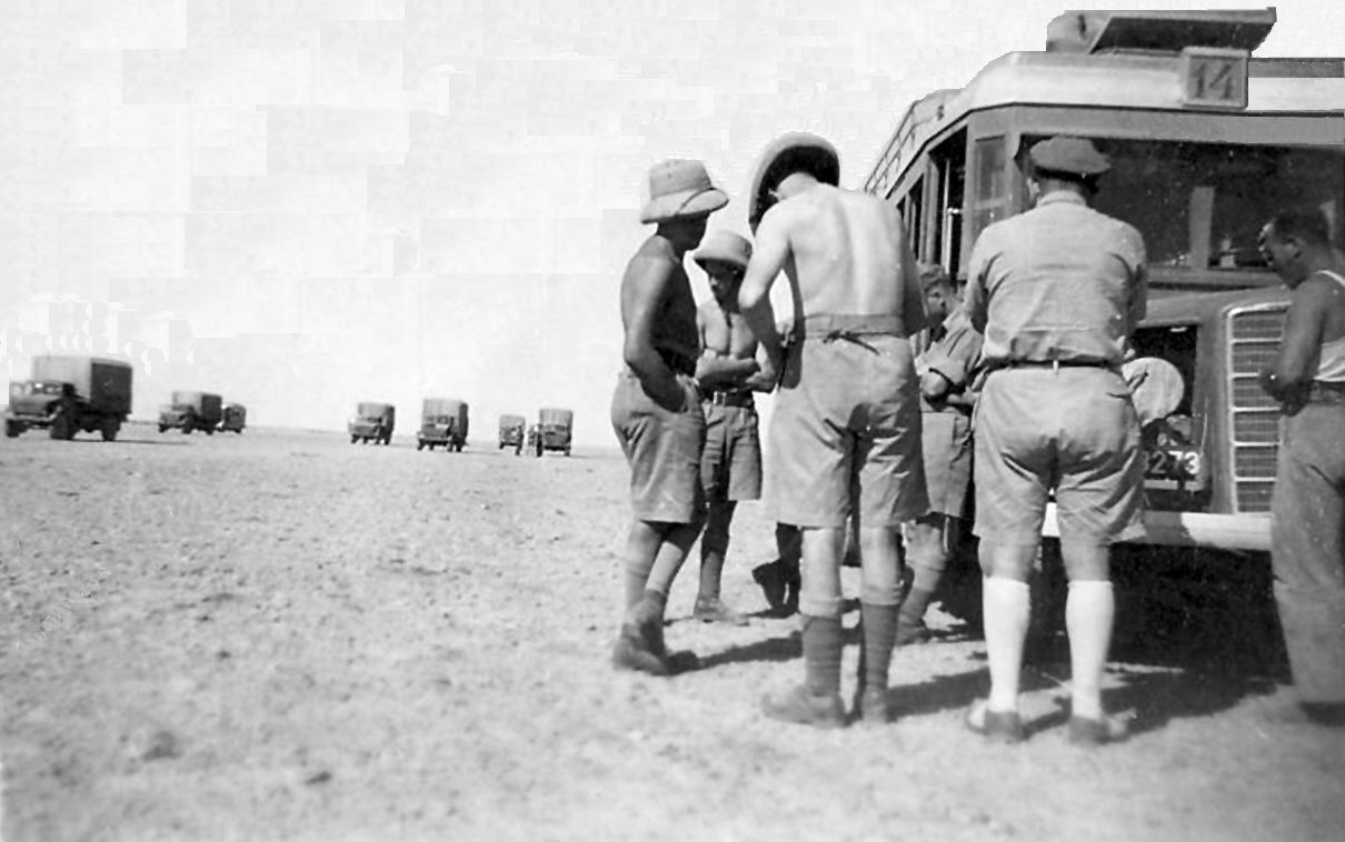 British army cars near Bagdad, 1942